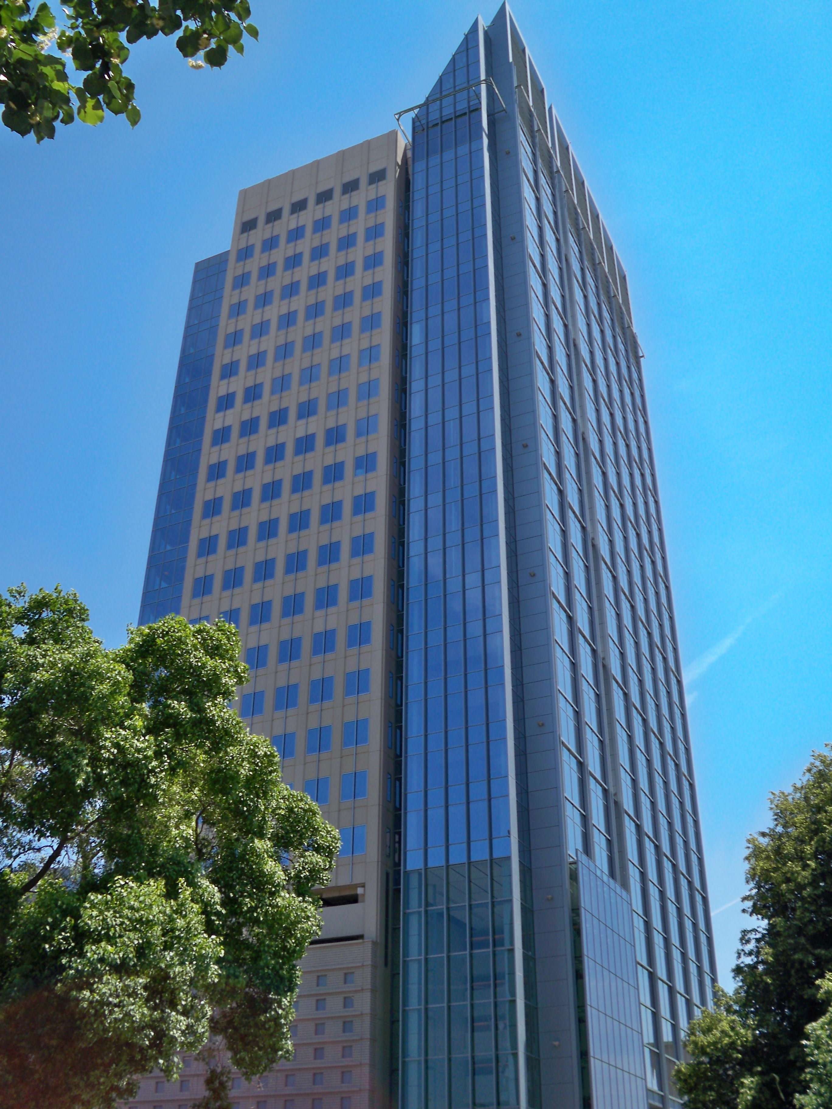 US Bank Tower Profile